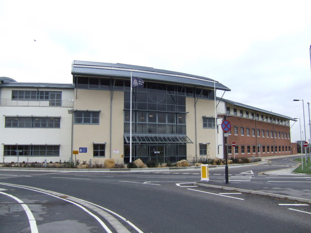 Wiltshire Police headquarters building Just off the A420 to the east of Swindon.